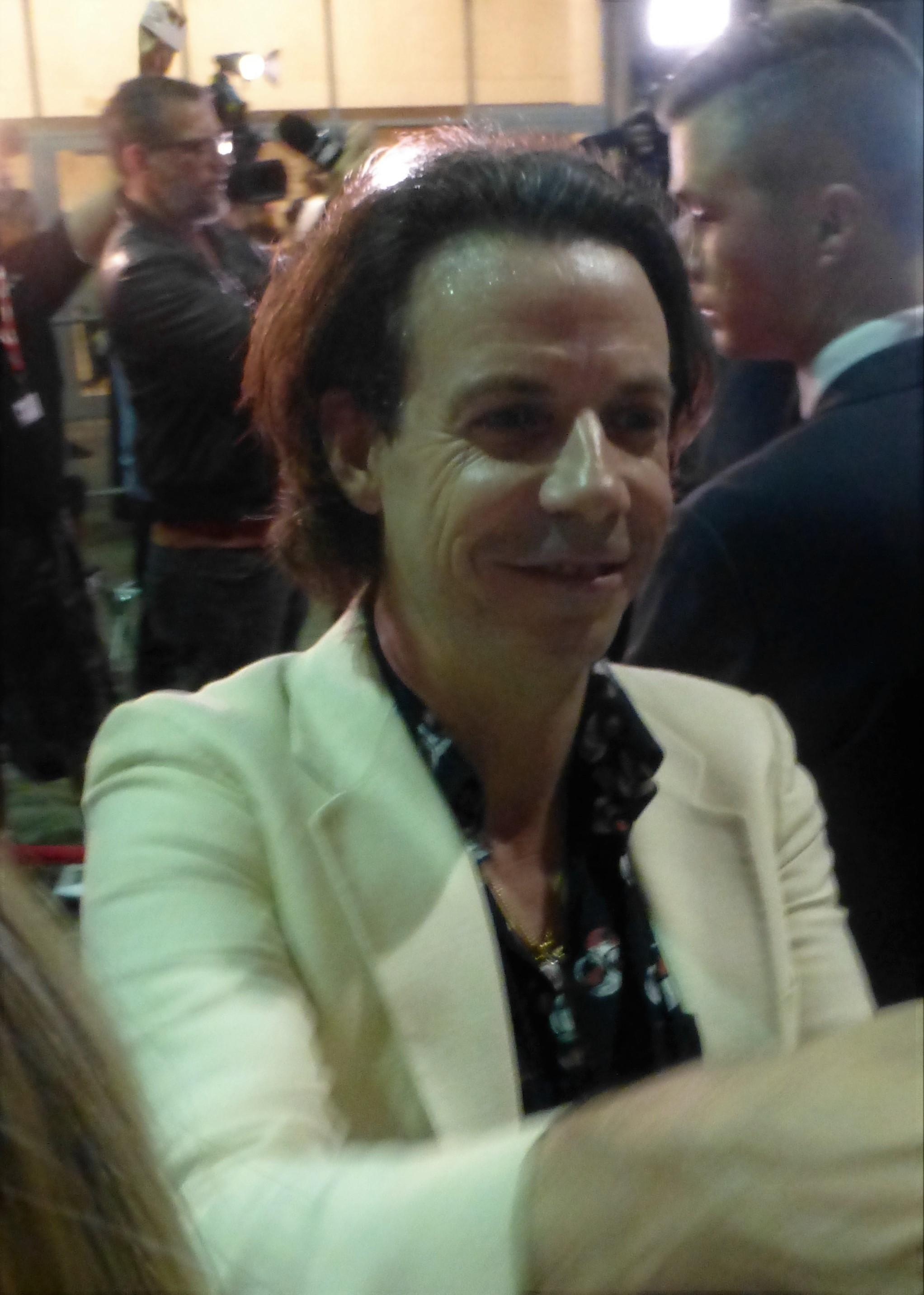 Noah Taylor at the premiere of Free Fire, 2016 Toronto Film Festival